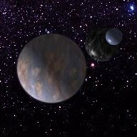 GIMP. Fiction. Planet Hodo with a double moon.